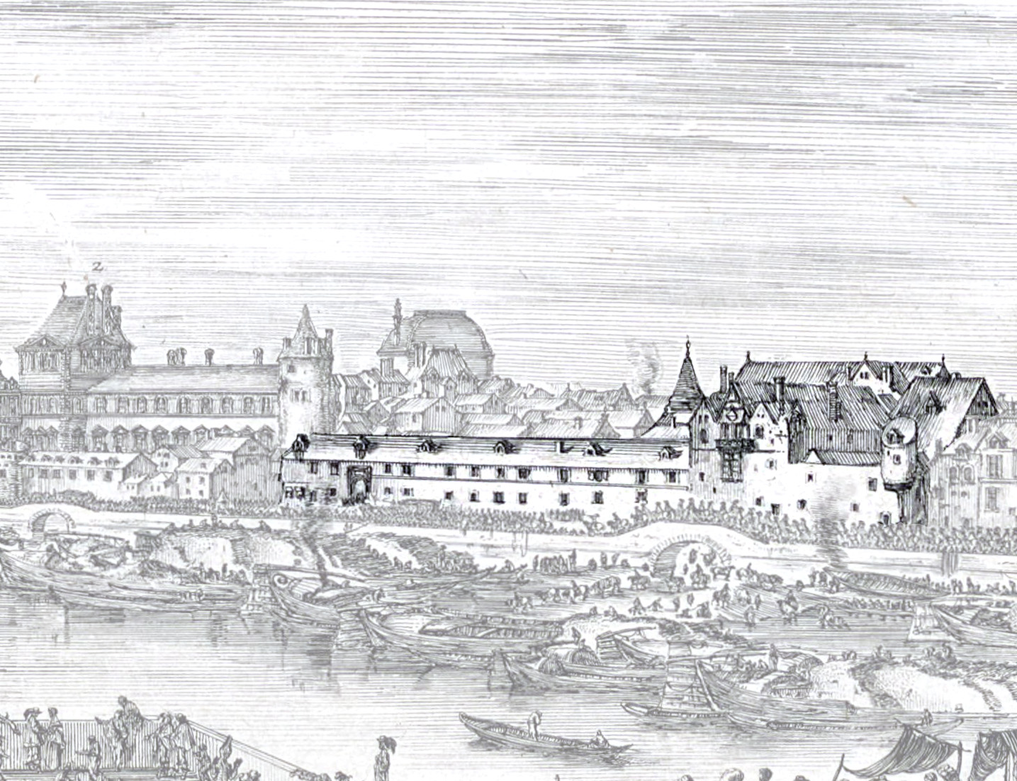 View of the river facade of the Hôtel du Petit-Bourbon from the Place Dauphine in Paris, with the Louvre Palace on the left